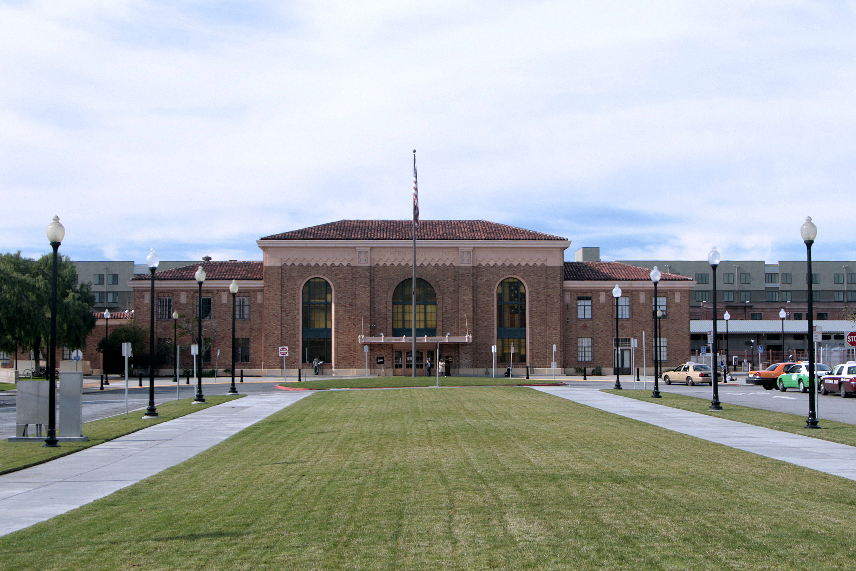 Diridon Railway Station, San Jose CA